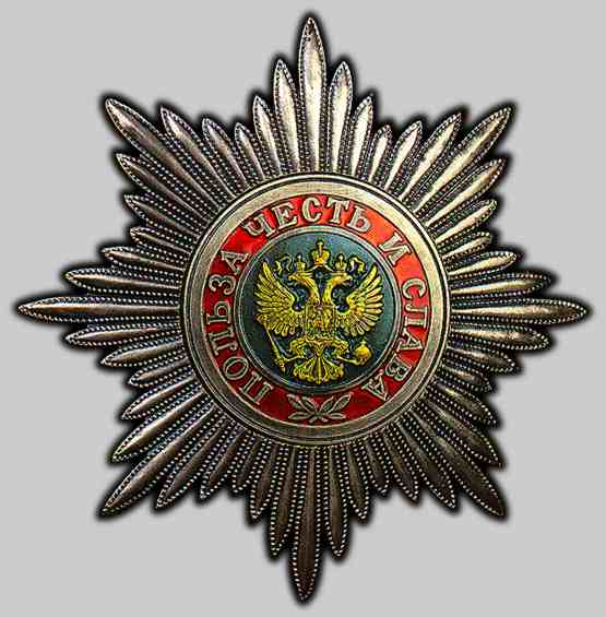 Russian Order of Services to the Fatherland 1st